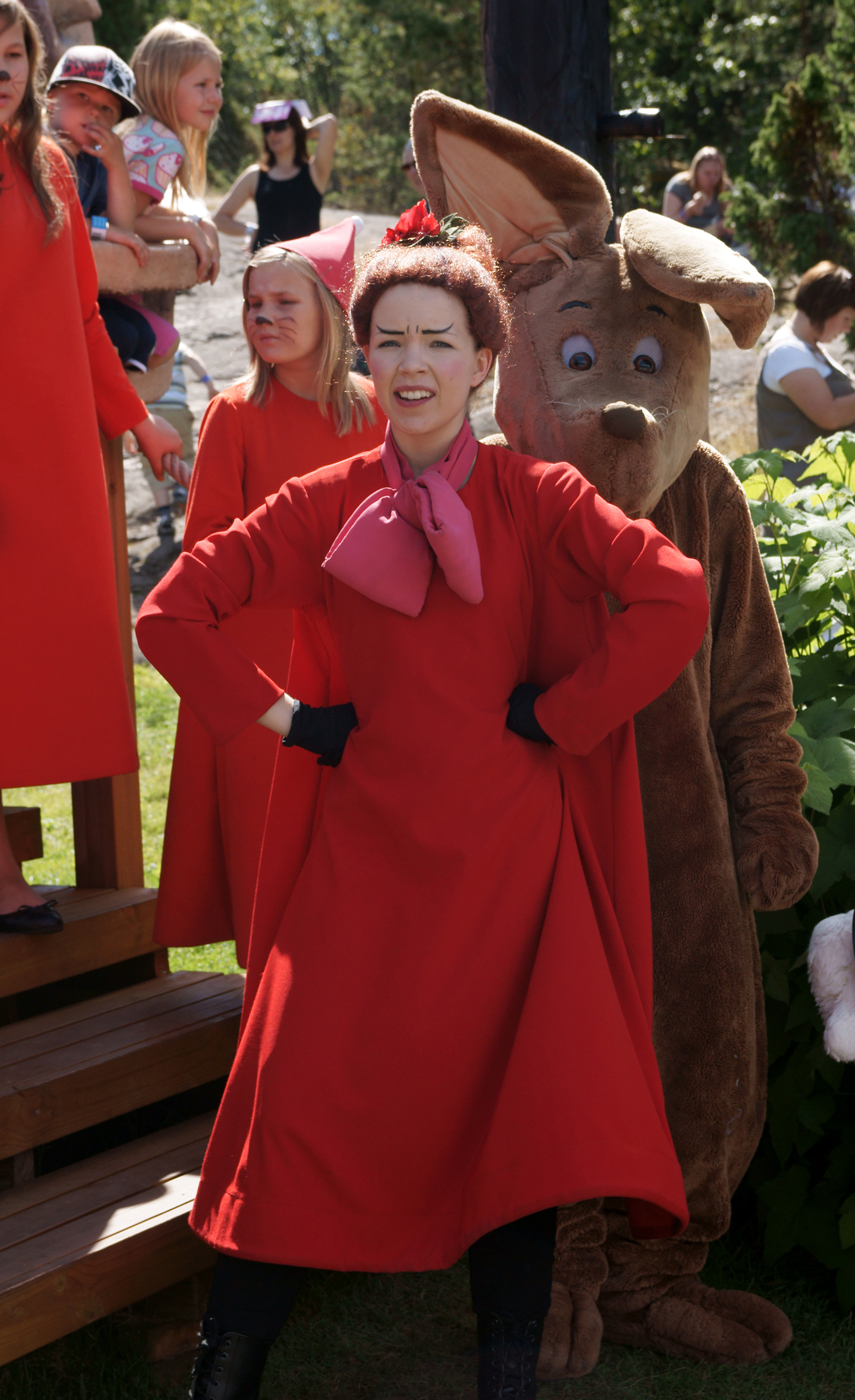 Little My in Muumimaailma, Naantali.